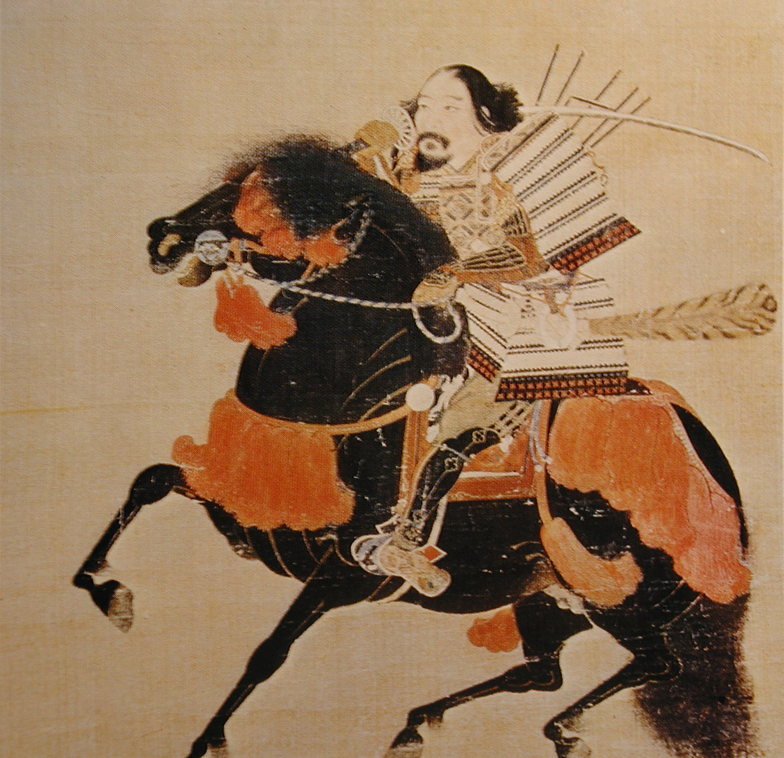 Portrait of Ashikaga Takauji or Kō no Moronao, cleaned up and color-corrected with PS